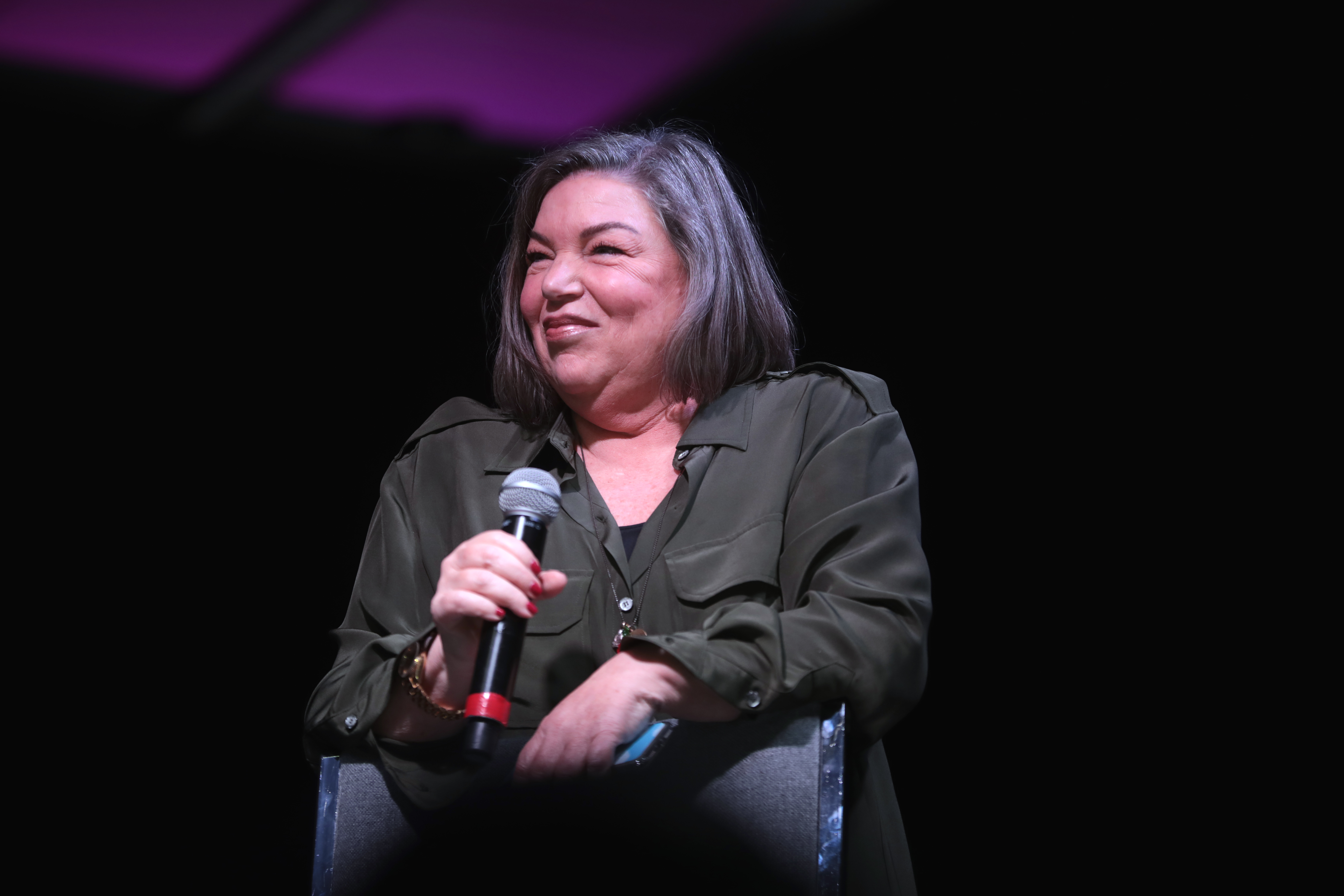 Mindy Cohn speaking with attendees at the 2019 Arizona Ultimate Women's Expo at the Phoenix Convention Center in Phoenix, Arizona.